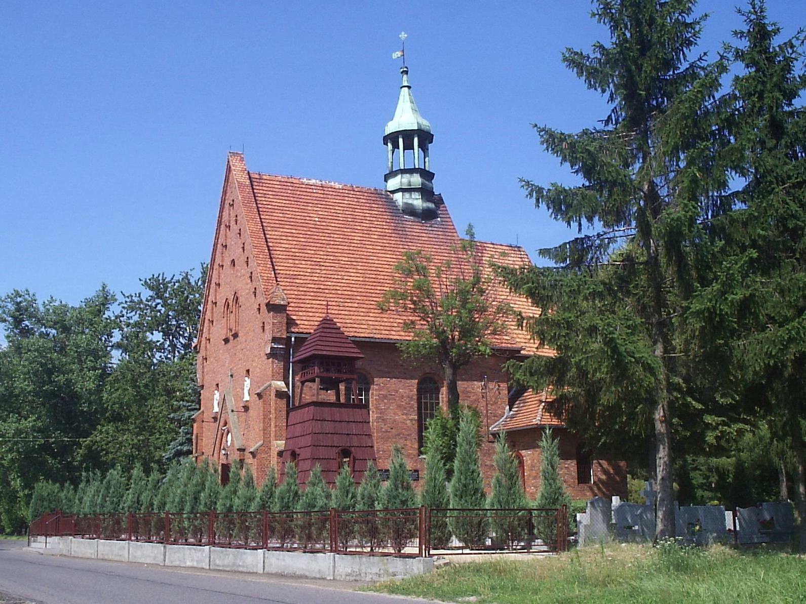 Church in Skoraszewice, Poland